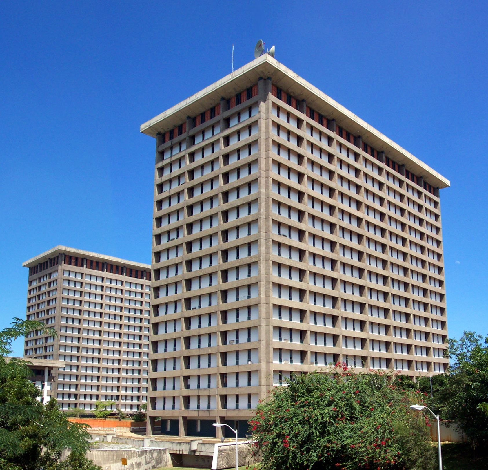 Southeast view of the Minillas Government Center in Santurce.